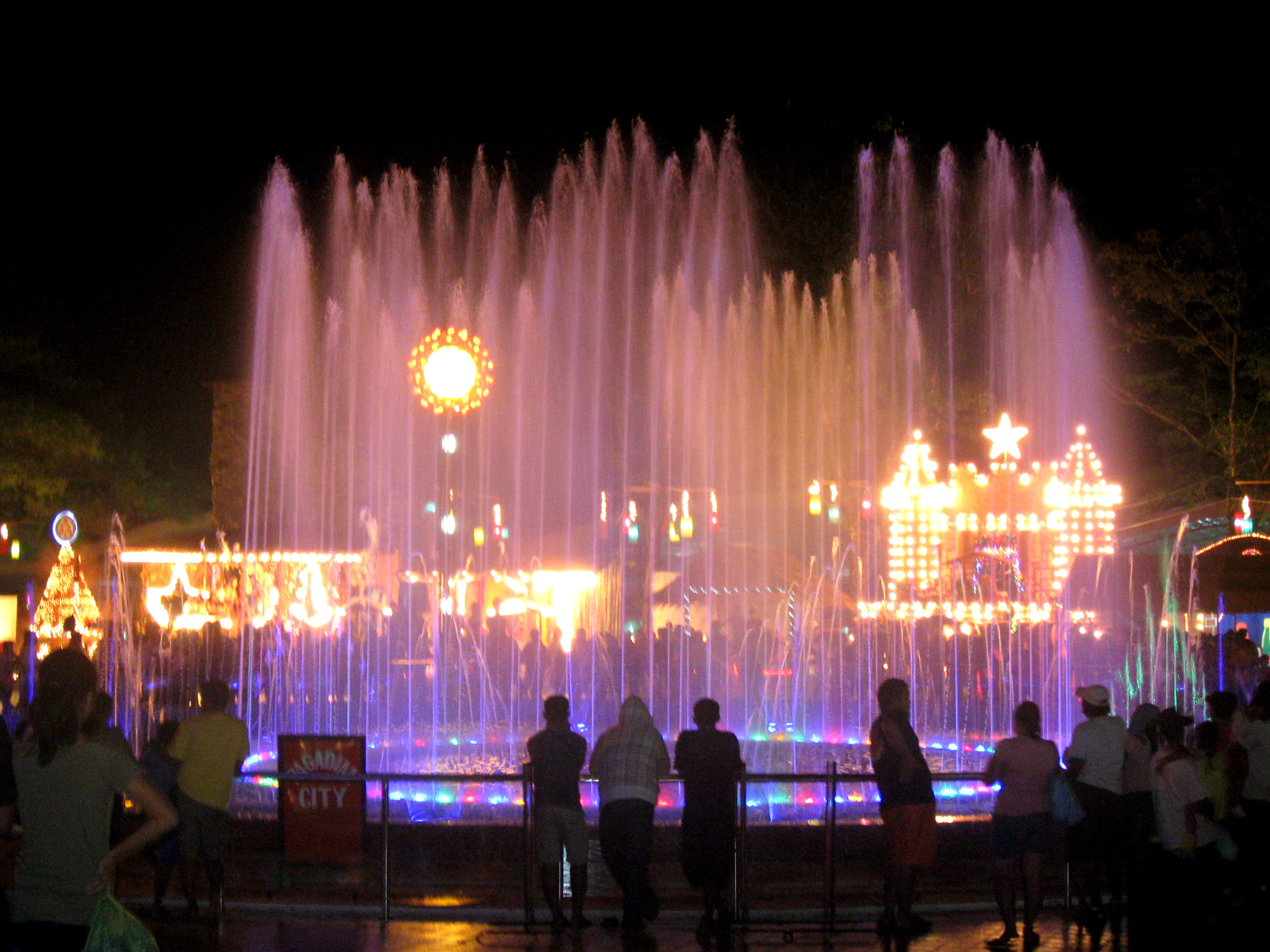 Plaa Luz Dancing Fountain in Pagadian in December.